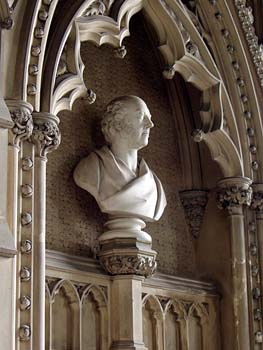 Photo by Craig Thornber from